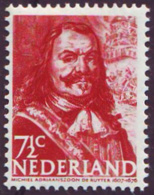 Admiral Michiel Adriaenszoon de Ruyter on a Dutch stamp from 1943.